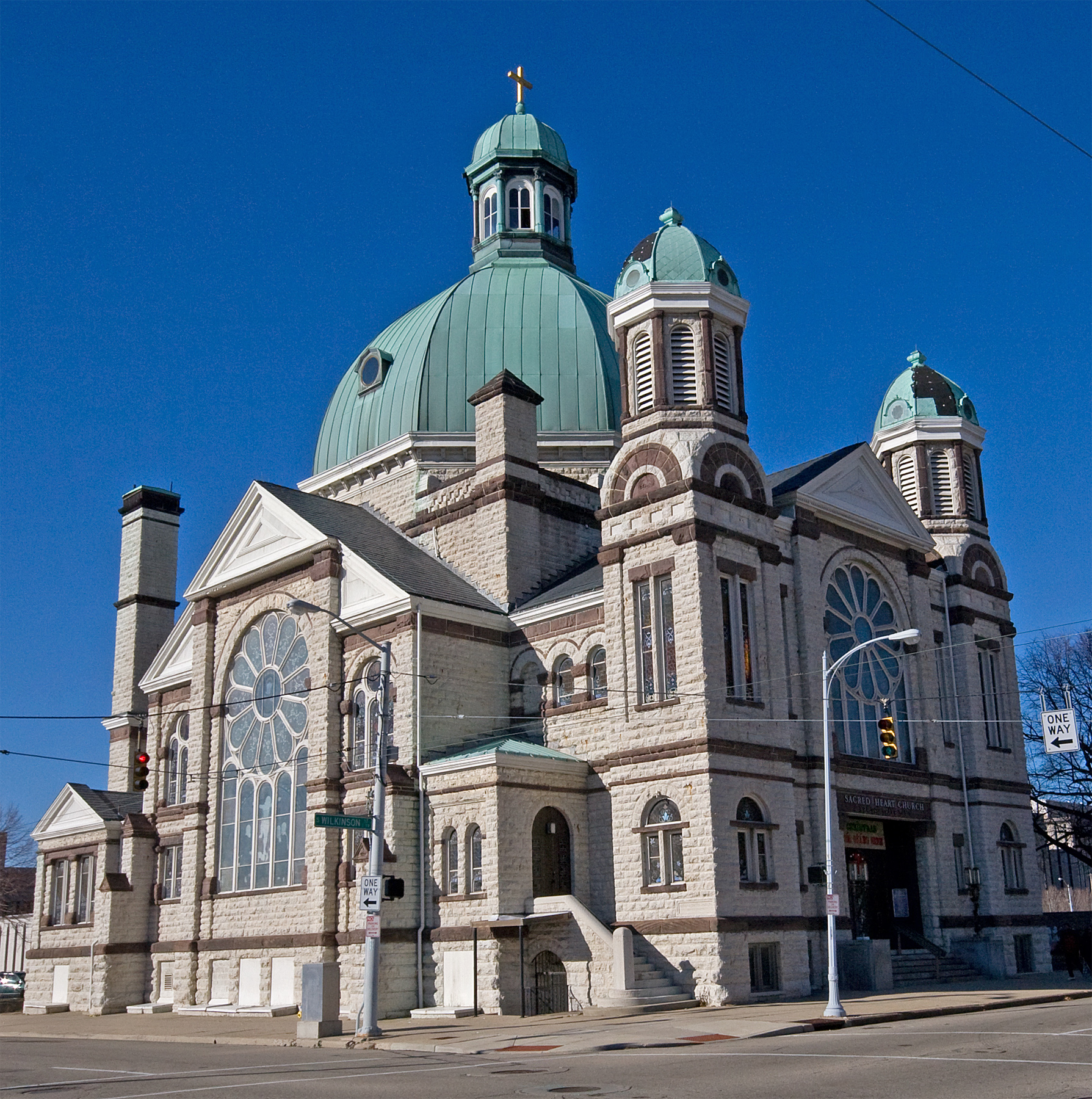 Sacred Heart Church in Dayton, OH. Photo by Greg Hume